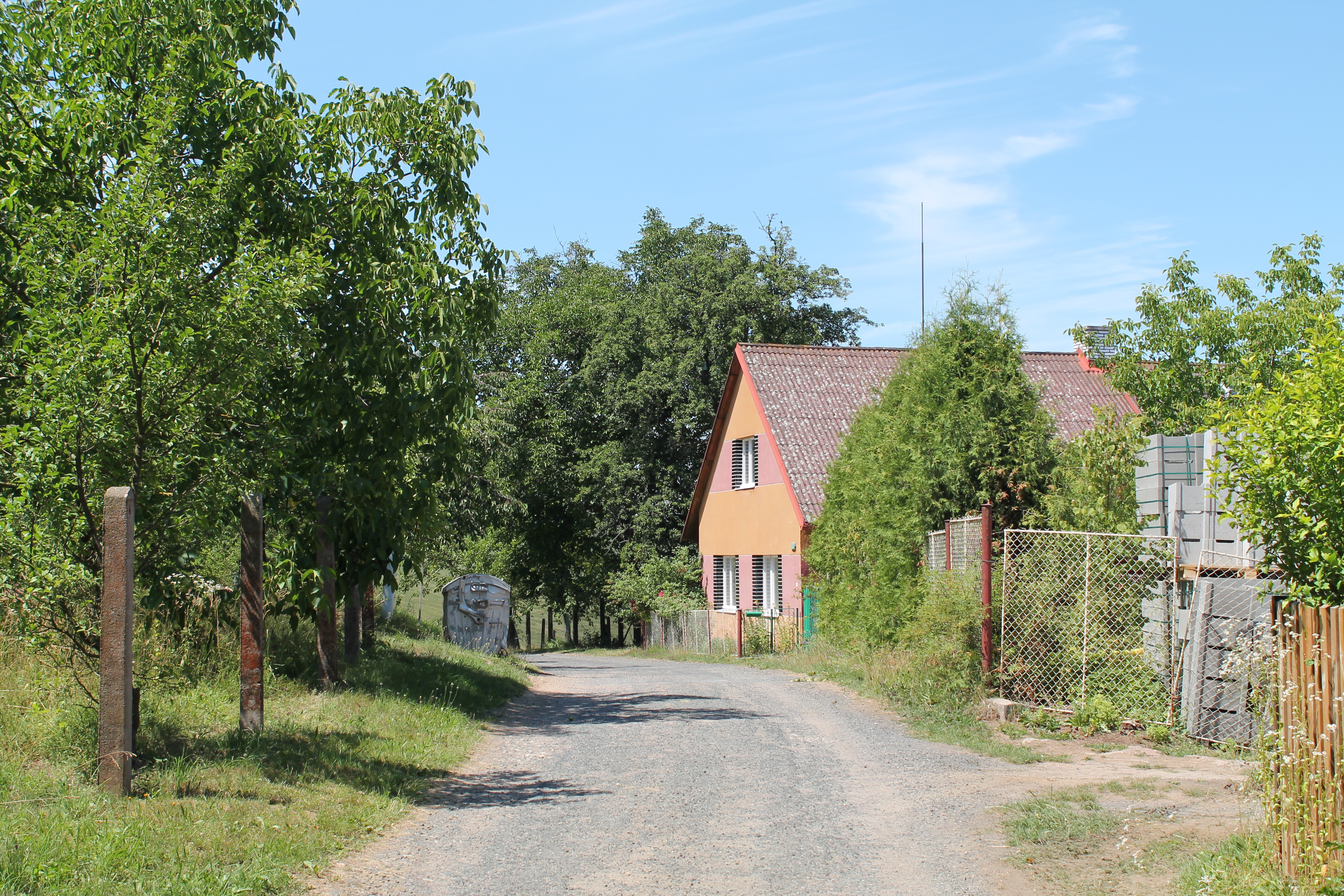 Slavice, Licibořice, Chrudim District, Czech Republic